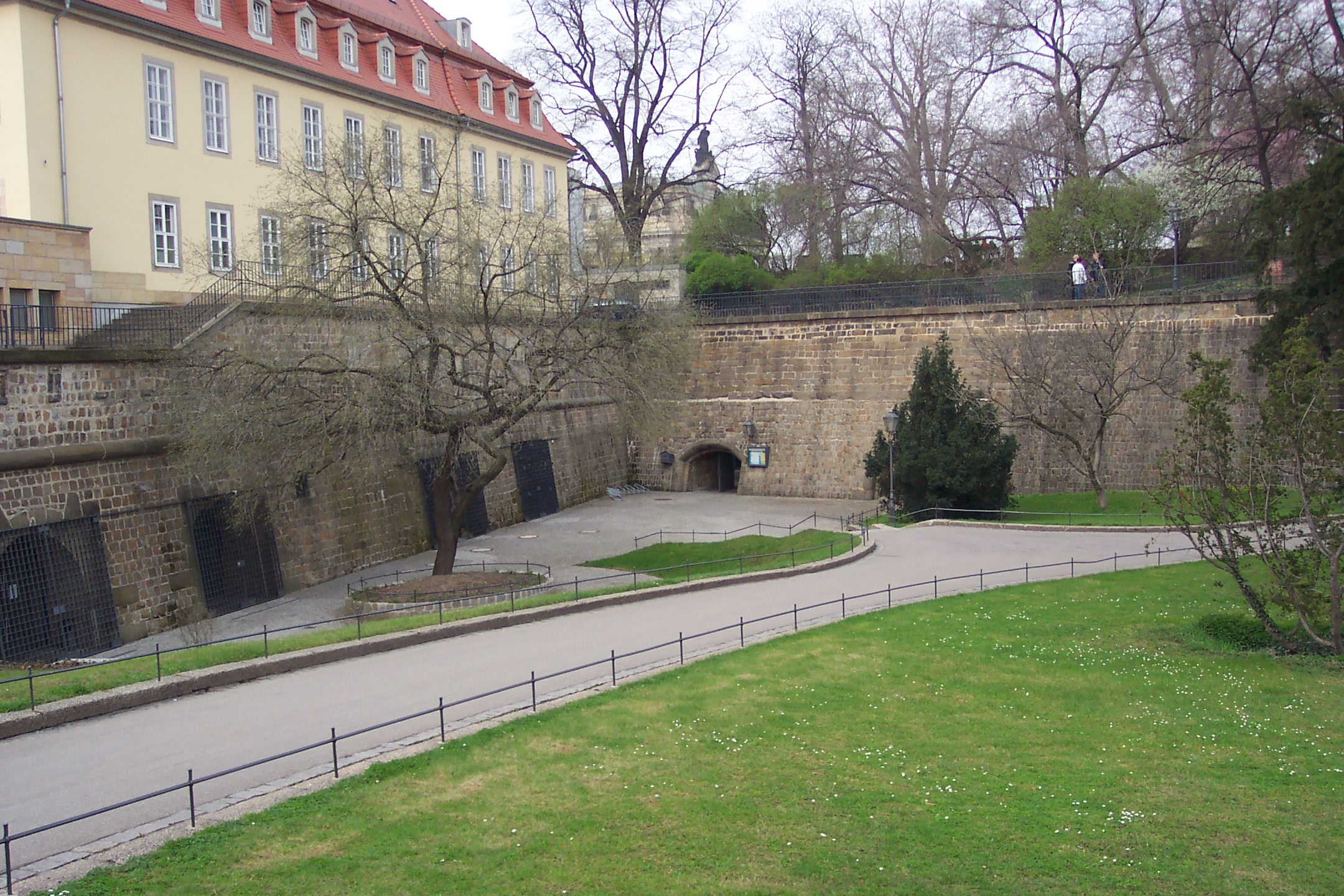 Bärenzwinger, Dresden, Germany View of the entrance area..